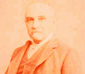 Emanuele Notarbartolo, major of Palermo (1873-1876), killed by the Sicilian mafia in 1893.